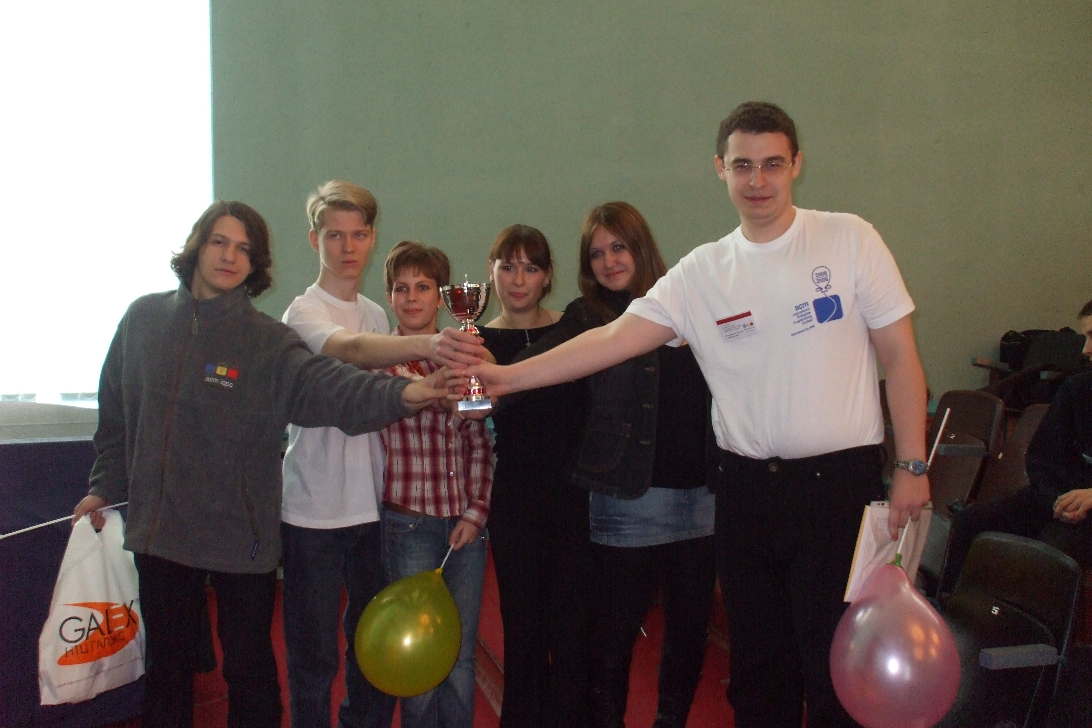 ASTU Team NEERC2008 ACM